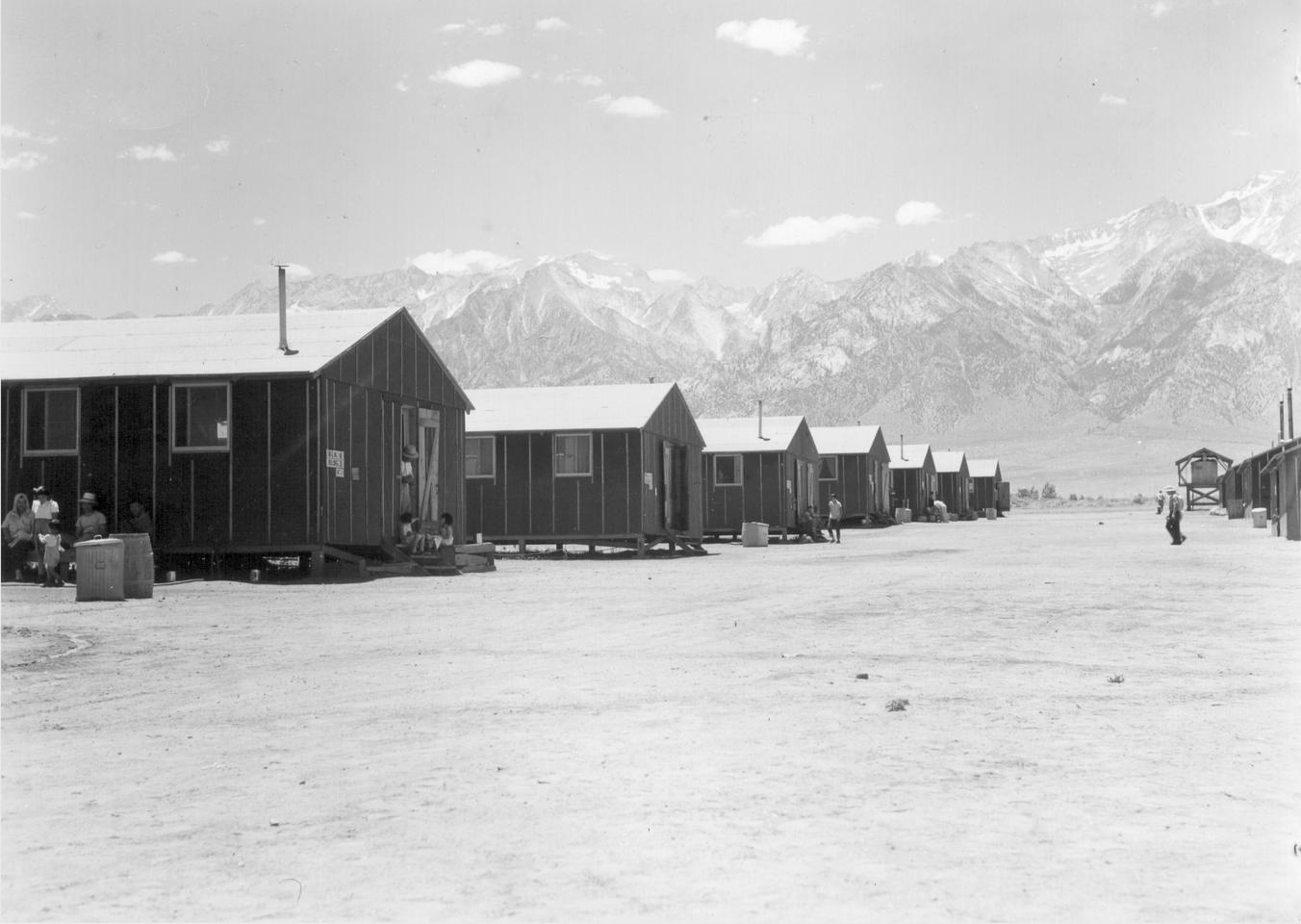 Title: Manzanar, Calif. – Far end of barrack row looking west to the desert beyond with the mountains in the background. Evacuees at this War Relocation Authority center are encountering the terrific desert heat.